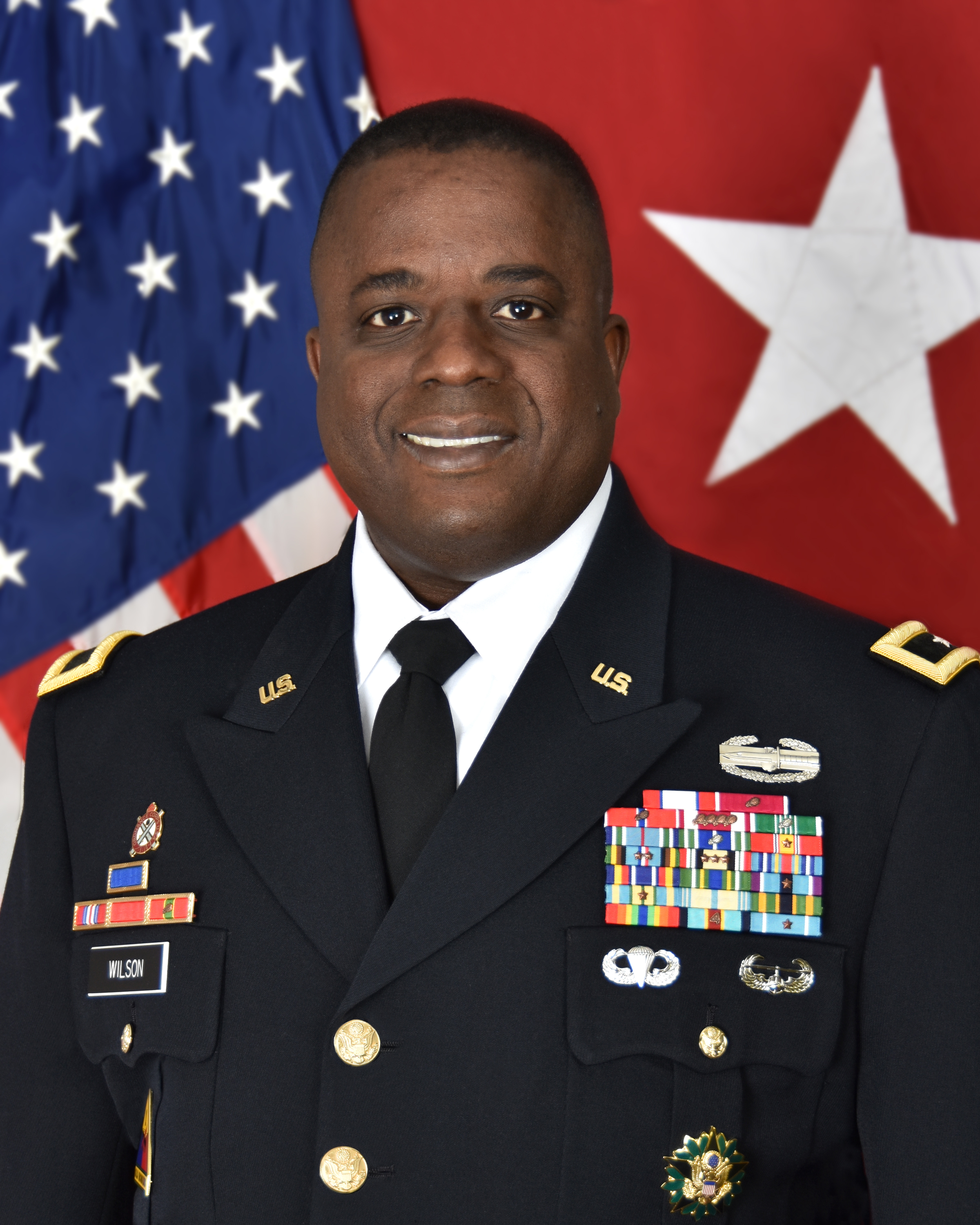 This is an official U.S. Army photo and is in the public domain.